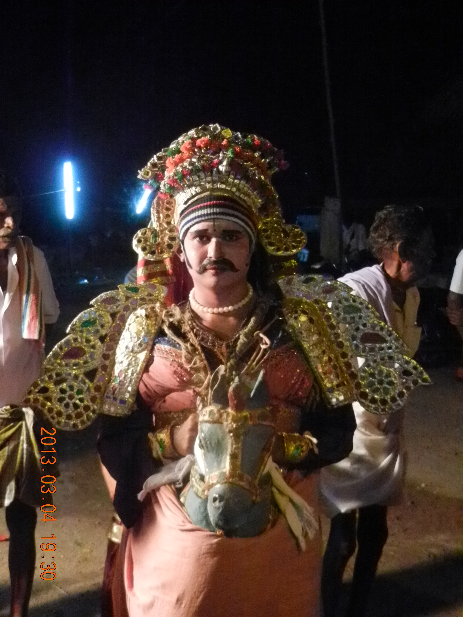 Poikkal Kuthirai Attam Performance